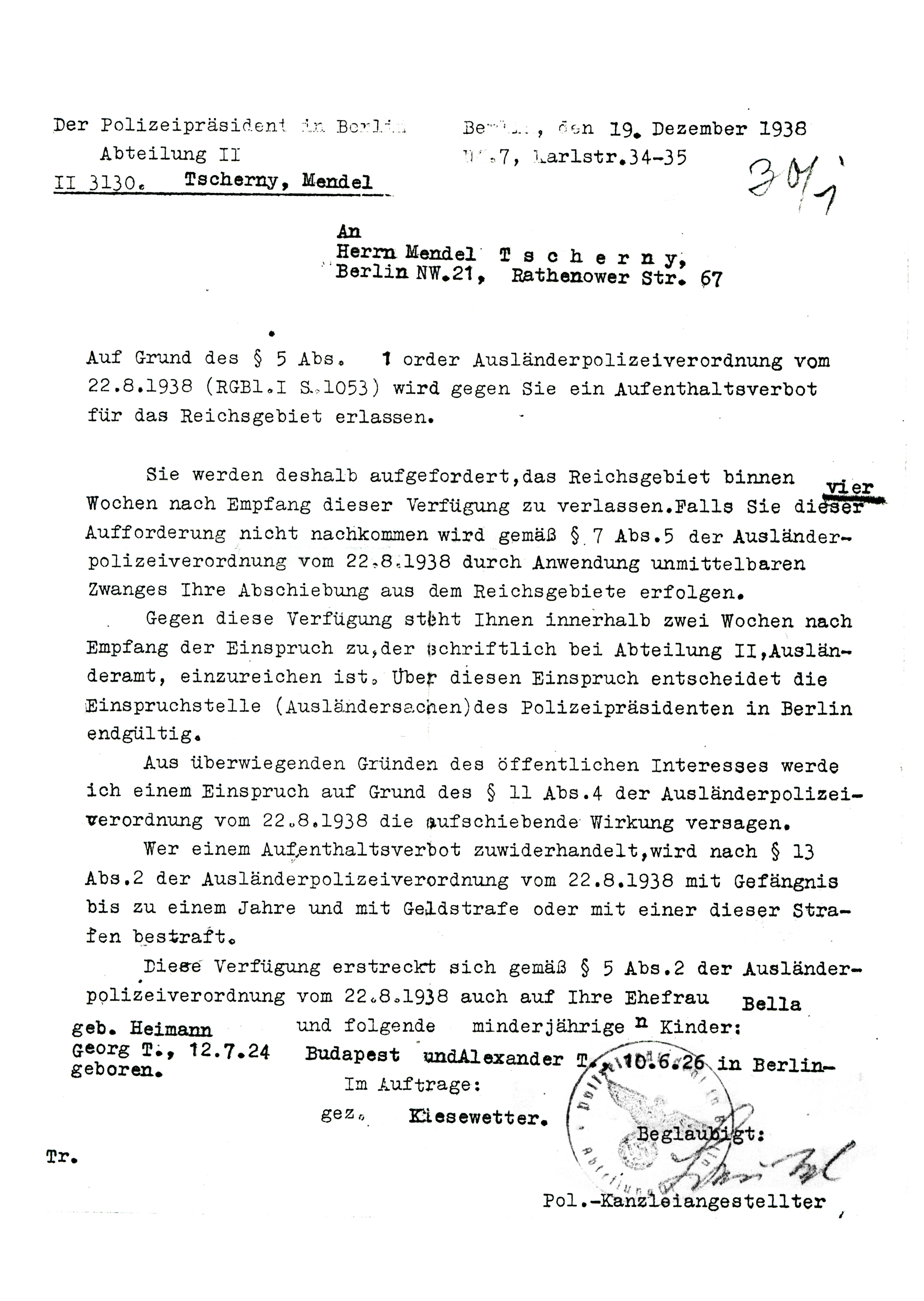 Deportation order addressed to Tscherny's father Mendel.